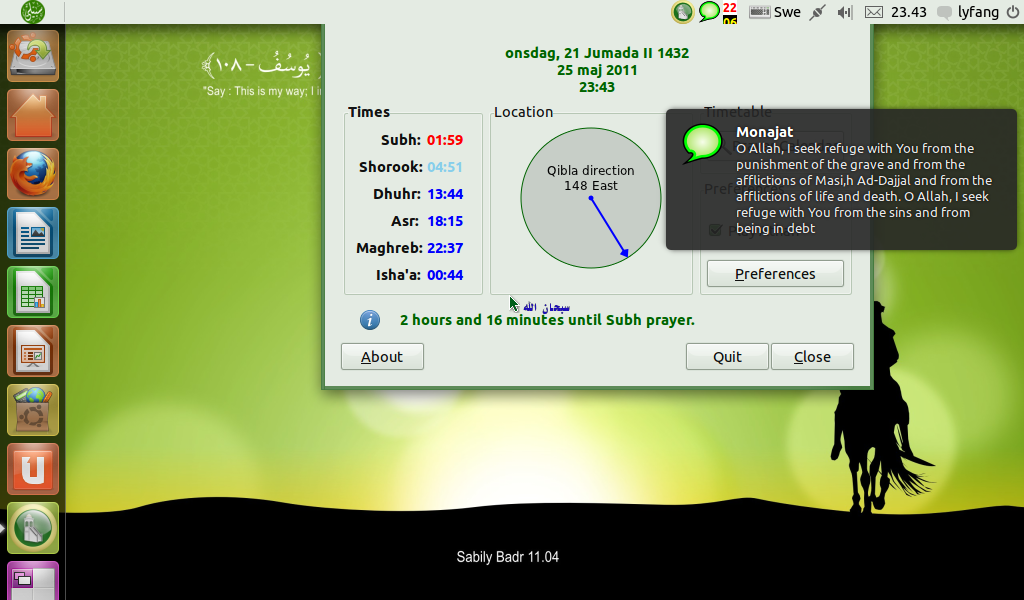 Sabily is a free, open source operating system designed by and for Muslims. Sabily is based on the popular Ubuntu GNU/Linux Linux distribution. Sabily Badr 11.04 has Firefox 4, LibreOffice and Linux Kernel 2.6.38 installed.